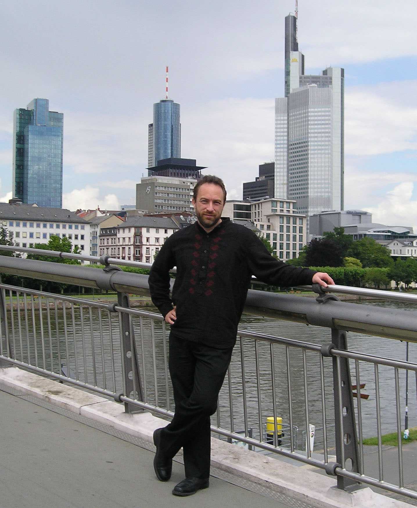 Jimmy Wales on the Holbeinsteg bridge in Frankfurt Main, Germany during a shooting break of a documentary film about Wikipedia by the French-German TV-station Arte. Behind him you can see the river Main and the sky scrapers of Frankfurt.